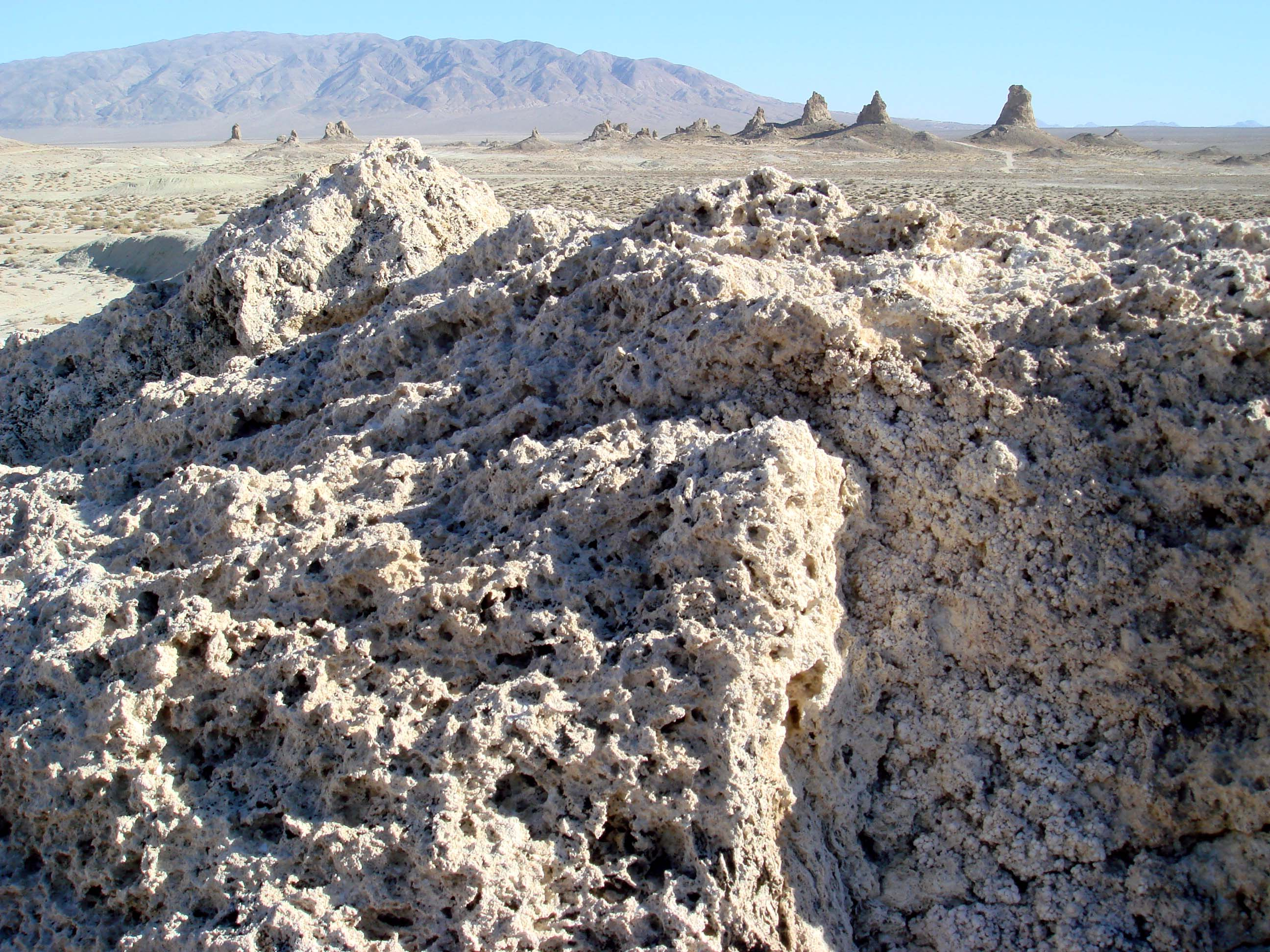 Close-up of the tufa that makes up the Trona Pinnacles, with large pinnacle towers in background